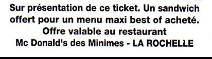 An example of franglais on a McDonald's special offer ticket.